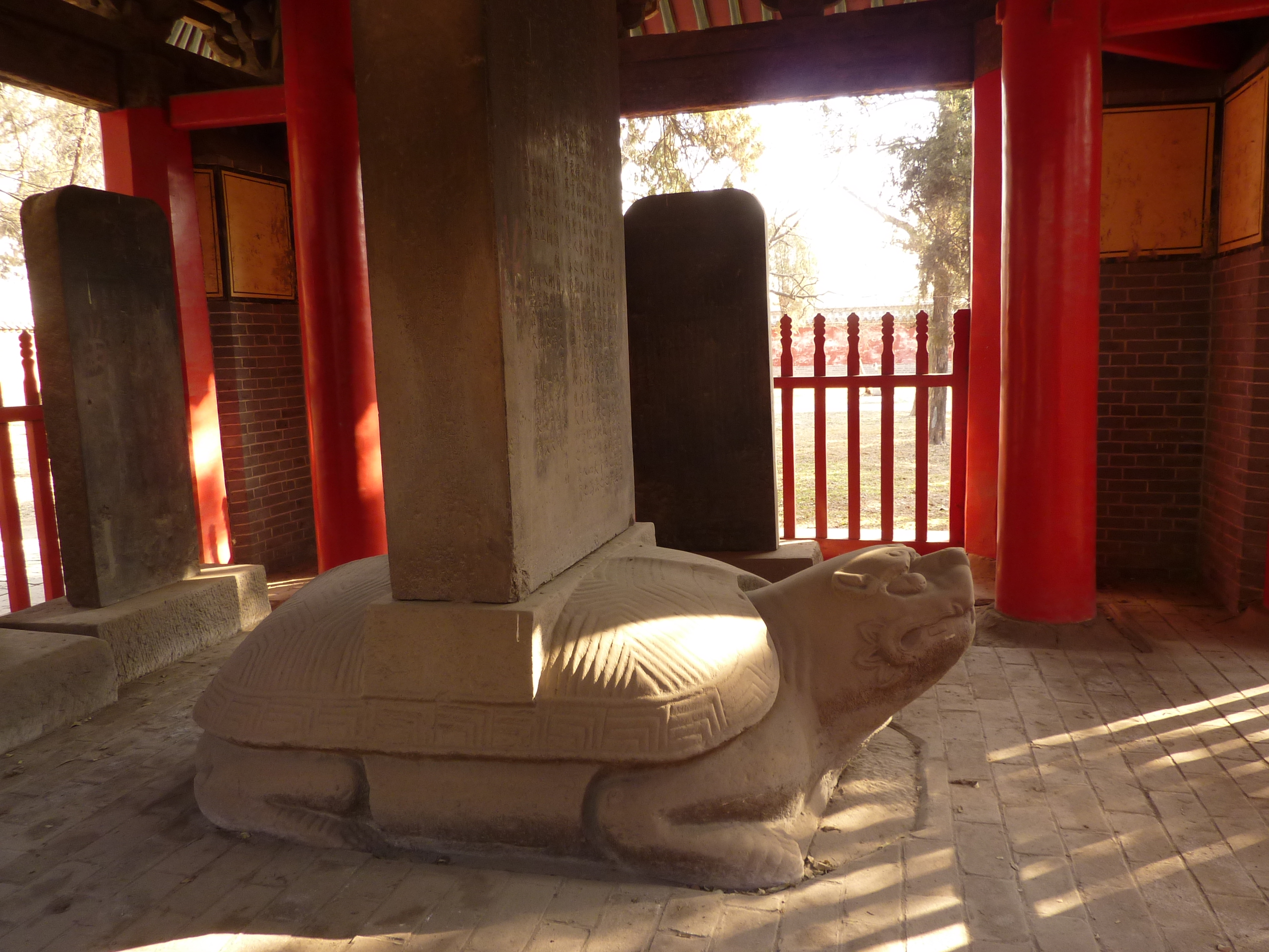 The Yan Miao Renovation Stele, or more precisely "The New Temple of Fusheng the Duke of Yanguo Stele", dated Year 6 of Zhengtong era (i.e. 1441 CE). (Fusheng the Duke of Yanguo is the same Yan Hui to whom Yan Miao is dedicated). The stele stands on a bixi tortoise, and is located in the eastern stele pavilion of the middle court of Yan Miao (the Temple of Yan) in Qufu. The stele is 4 m tall, 1.26 m wide, 0.39 m thick. Its turtle is 2.68 m long, 1.24 m wide, 0.8 m tall.